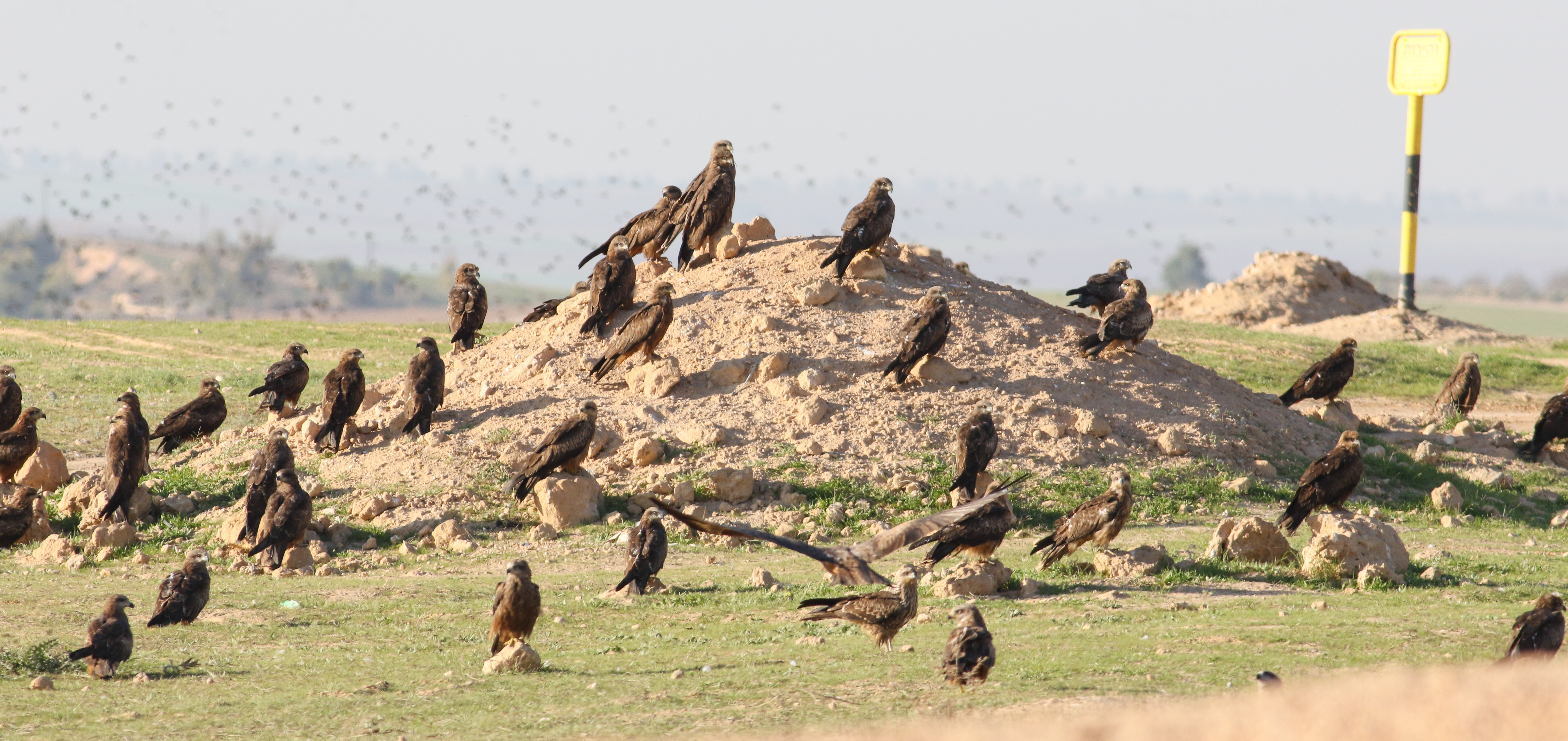 Milvus migrans at Dudaim Landfill ,Israel. 2014